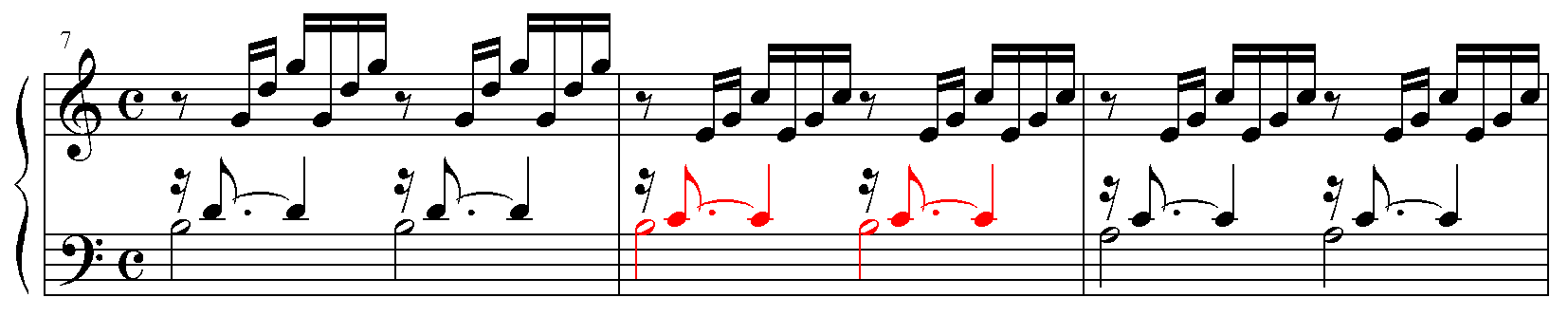 Example of a harmonic minor second in J.S. Bach's first Prelude from "The Well-Tempered Clavier" book 1, mm. 7-9. (Surrounding mesaures available at Image:Bach minor second.png.) The work is public domain; this reproduction is by the uploader.